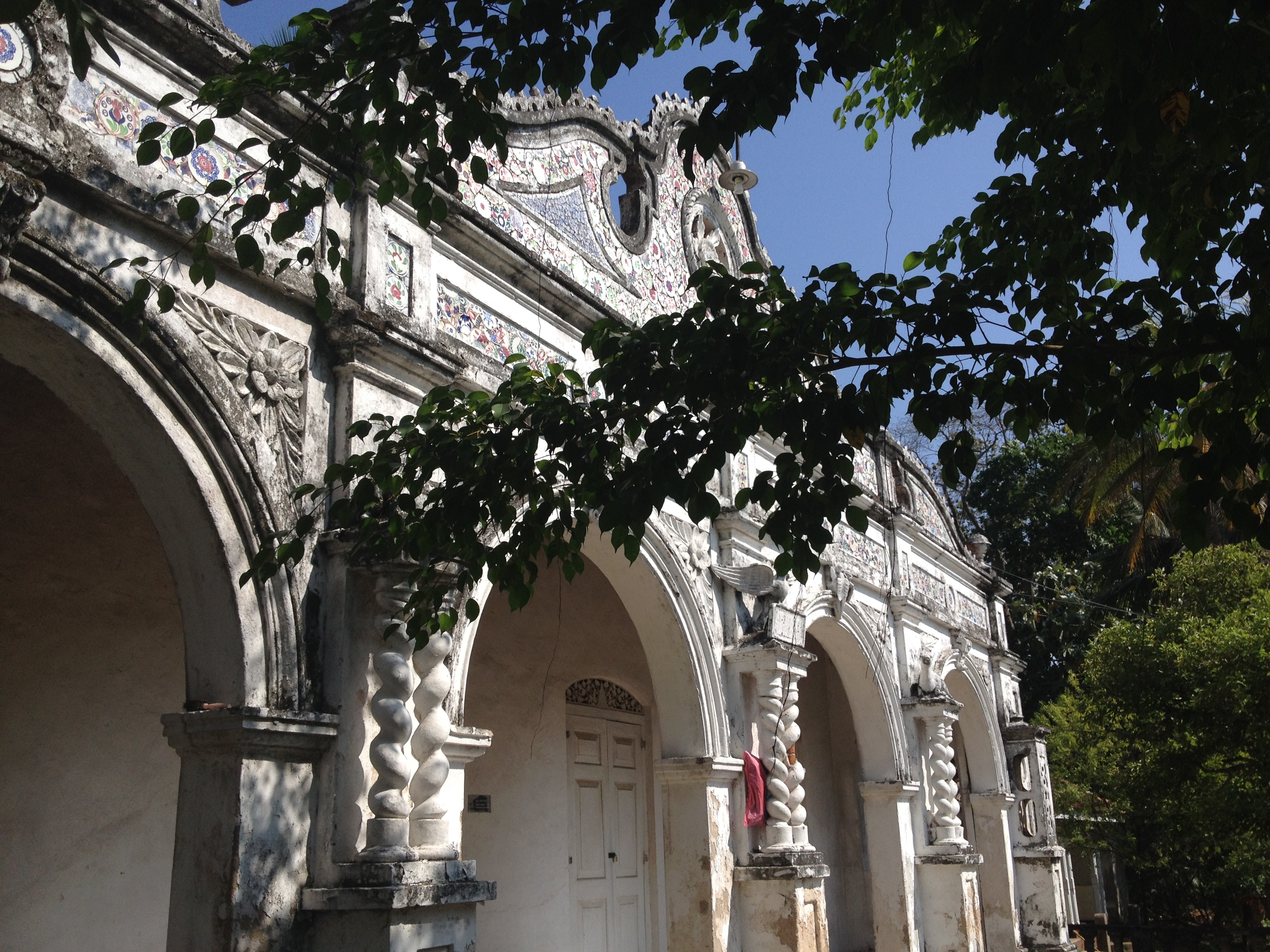 The Sath-Sathi-Geya at the Subodharama (Karagampitiya) temple, Sri Lanka.